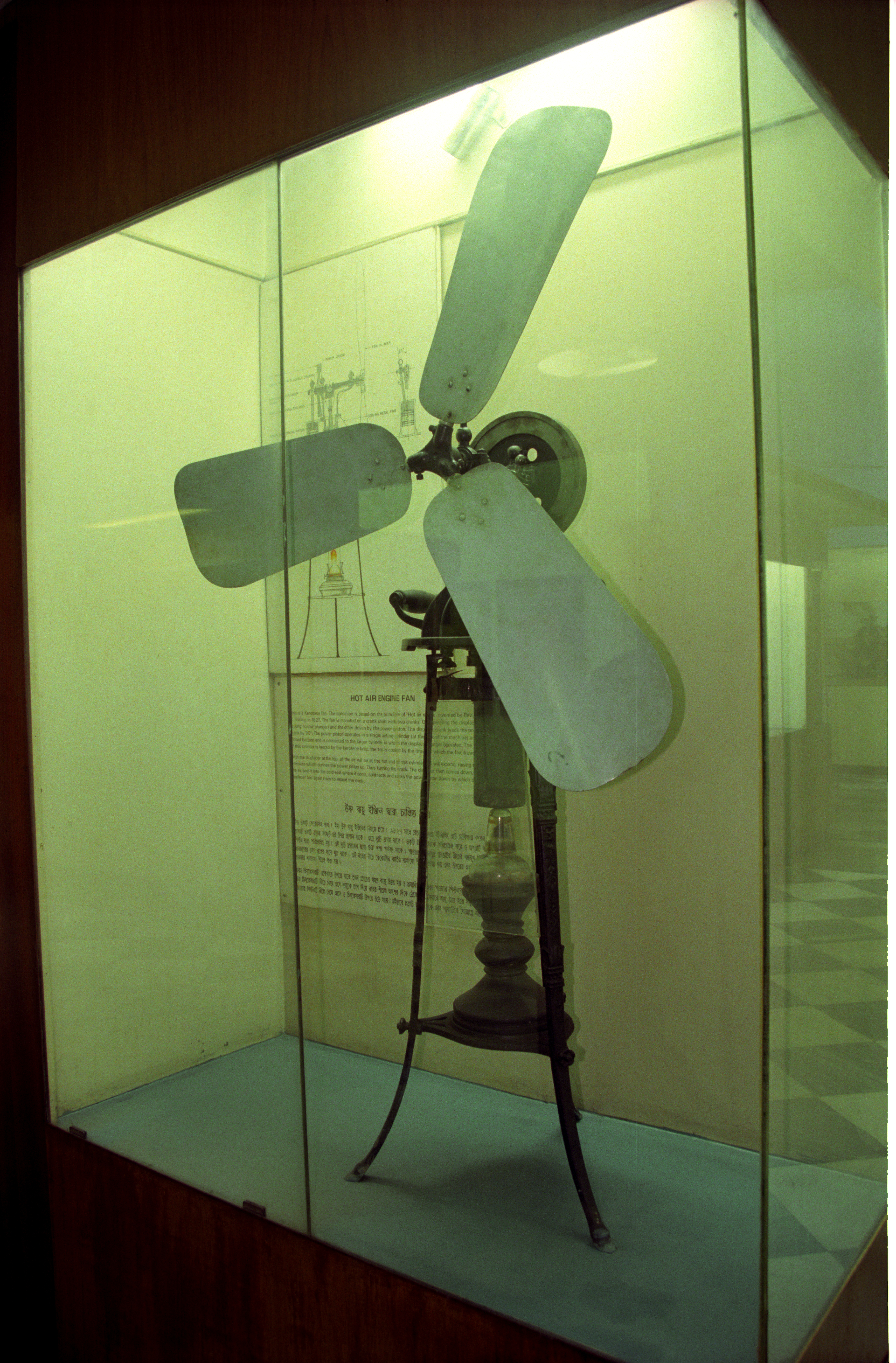 This photograph was taken at the Motive Power gallery, Birla Industrial & Technological Museum (BITM), Calcutta, in the year 2000.